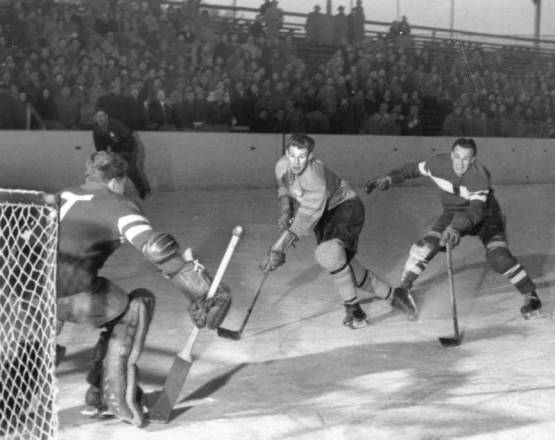 Sven Tumba in the "Three Crowns" in a match against West Germany in the Ice Hockey World Championships in Zurich 1953. Sweden won with 8-6.